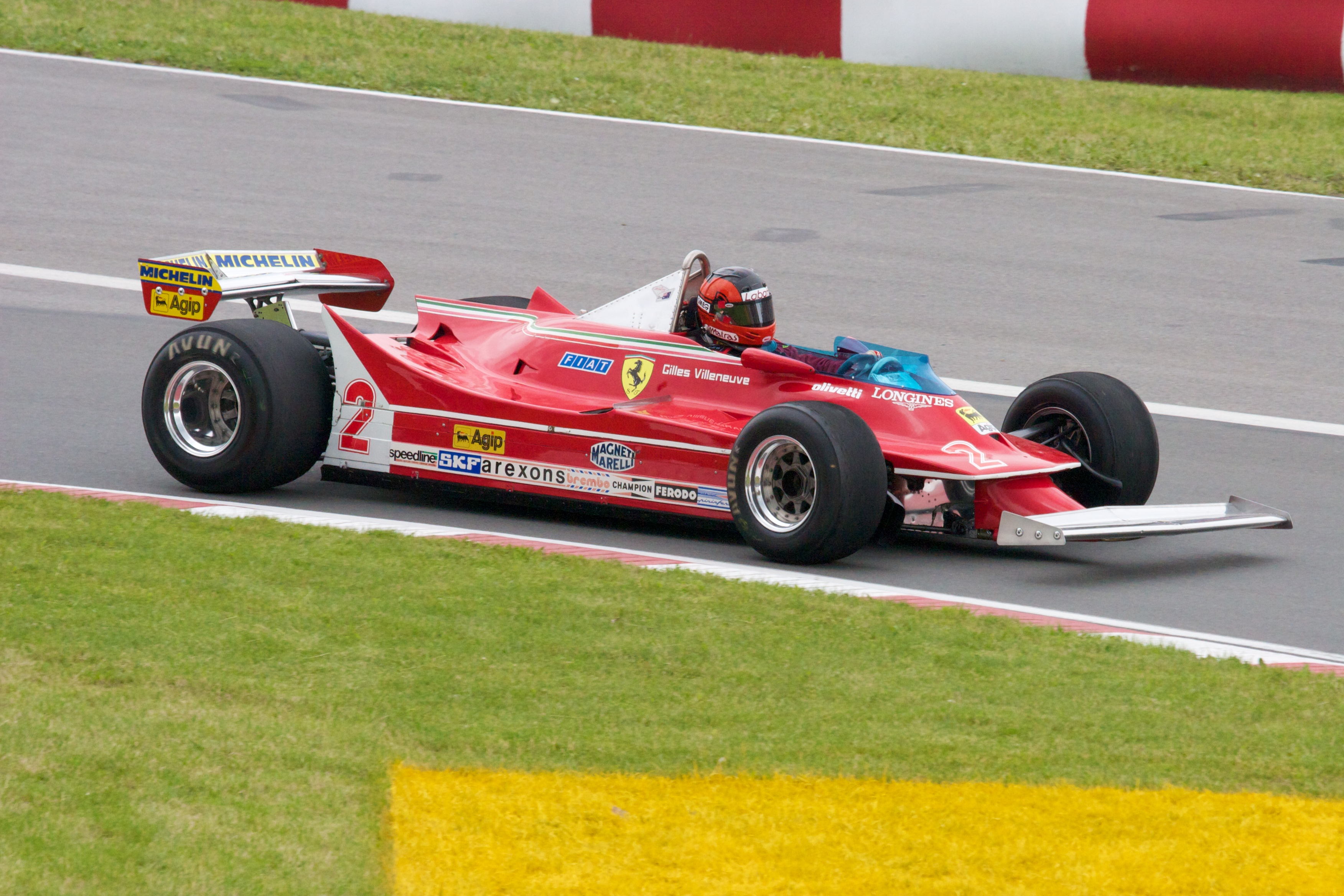 Gilles Villeneuve's Ferrari 312T5 at the Histric race during the 2010 Canadian GP.